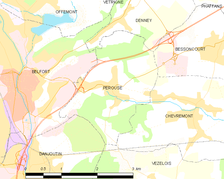 Map of French municipality Pérouse